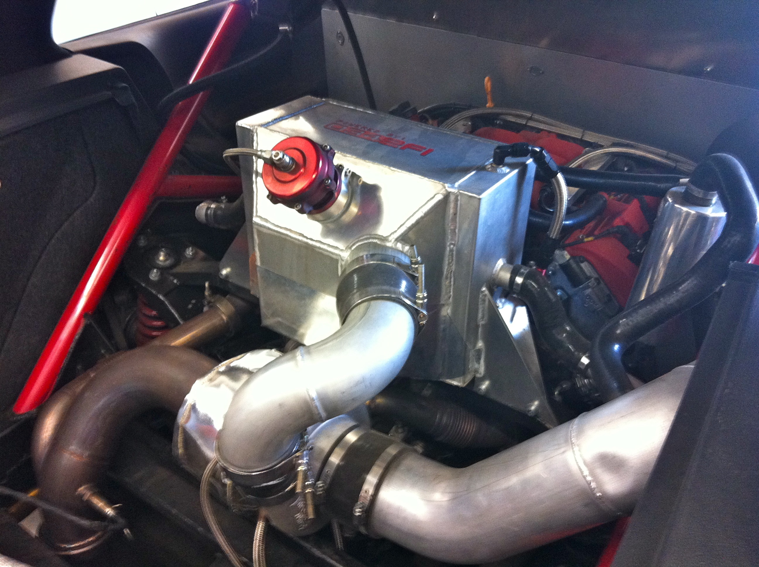 An air-to-liquid turbo intercooler, connected to a large Garrett GT45R turbocharger. This is a mid-engined vehicle, custom-built by 034 Motorsport of Fremont, CA.